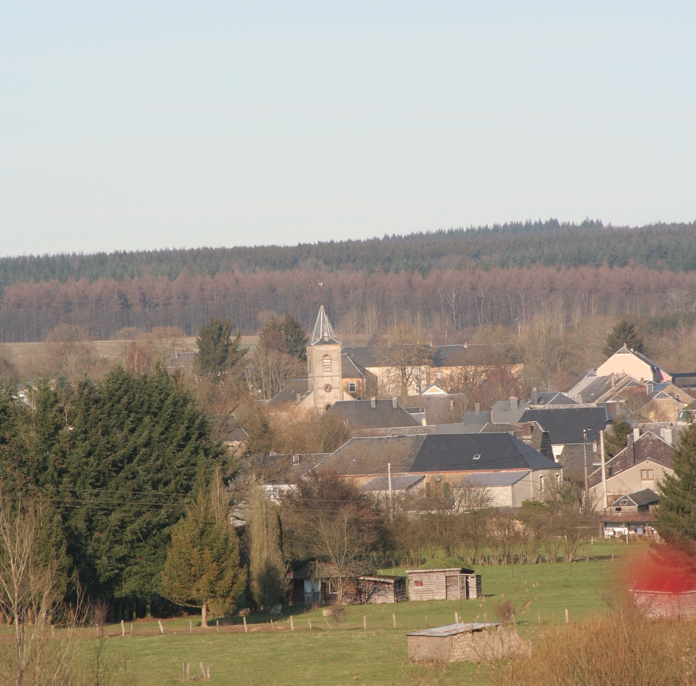 A view of the village of Les Bulles